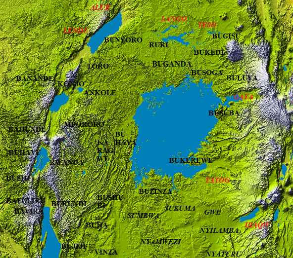 The main kingdoms and tribes of Great Lakes region in 19th century. Tribes other than Bantu are marked in red.